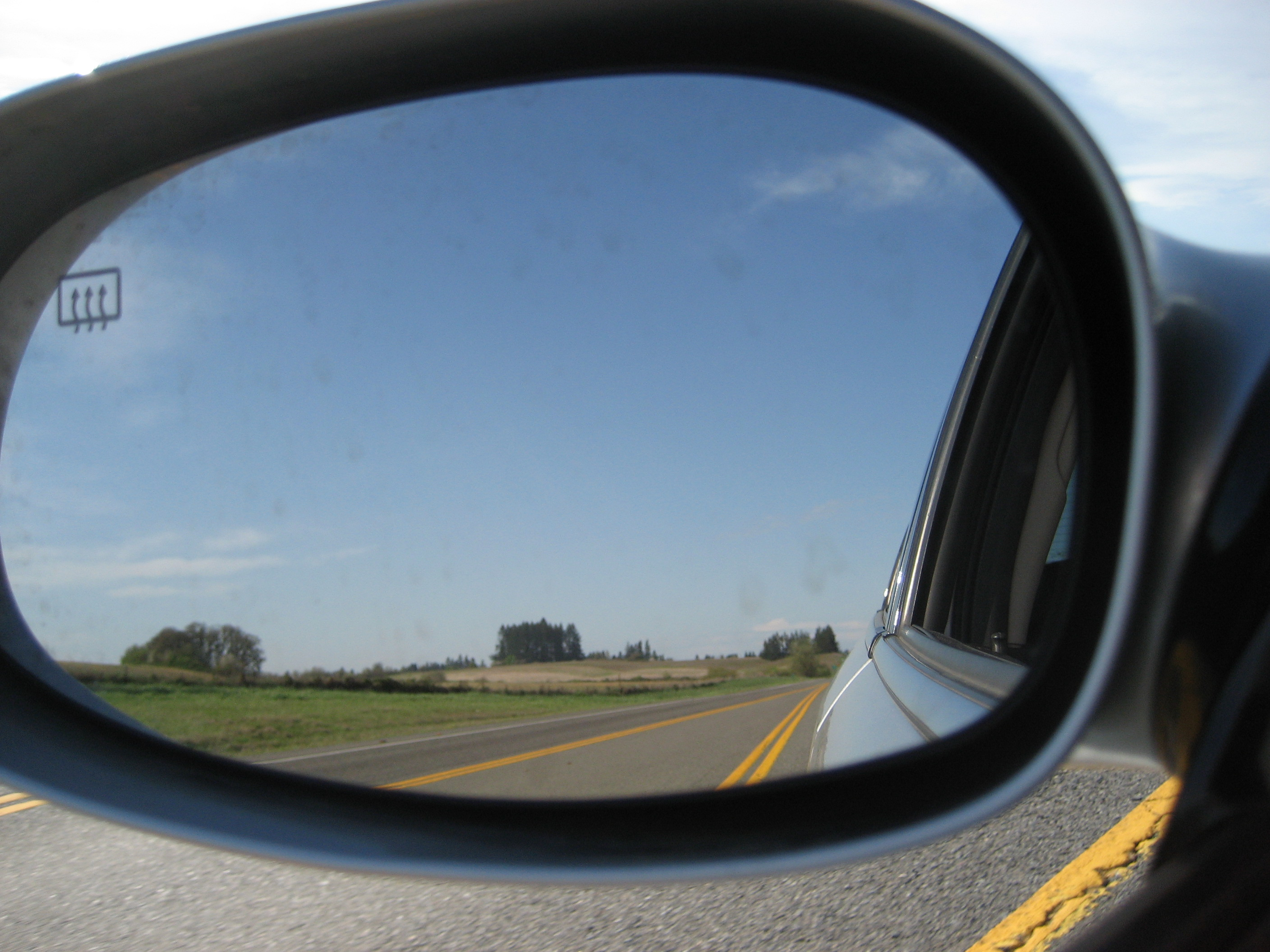 Oregon Route 22